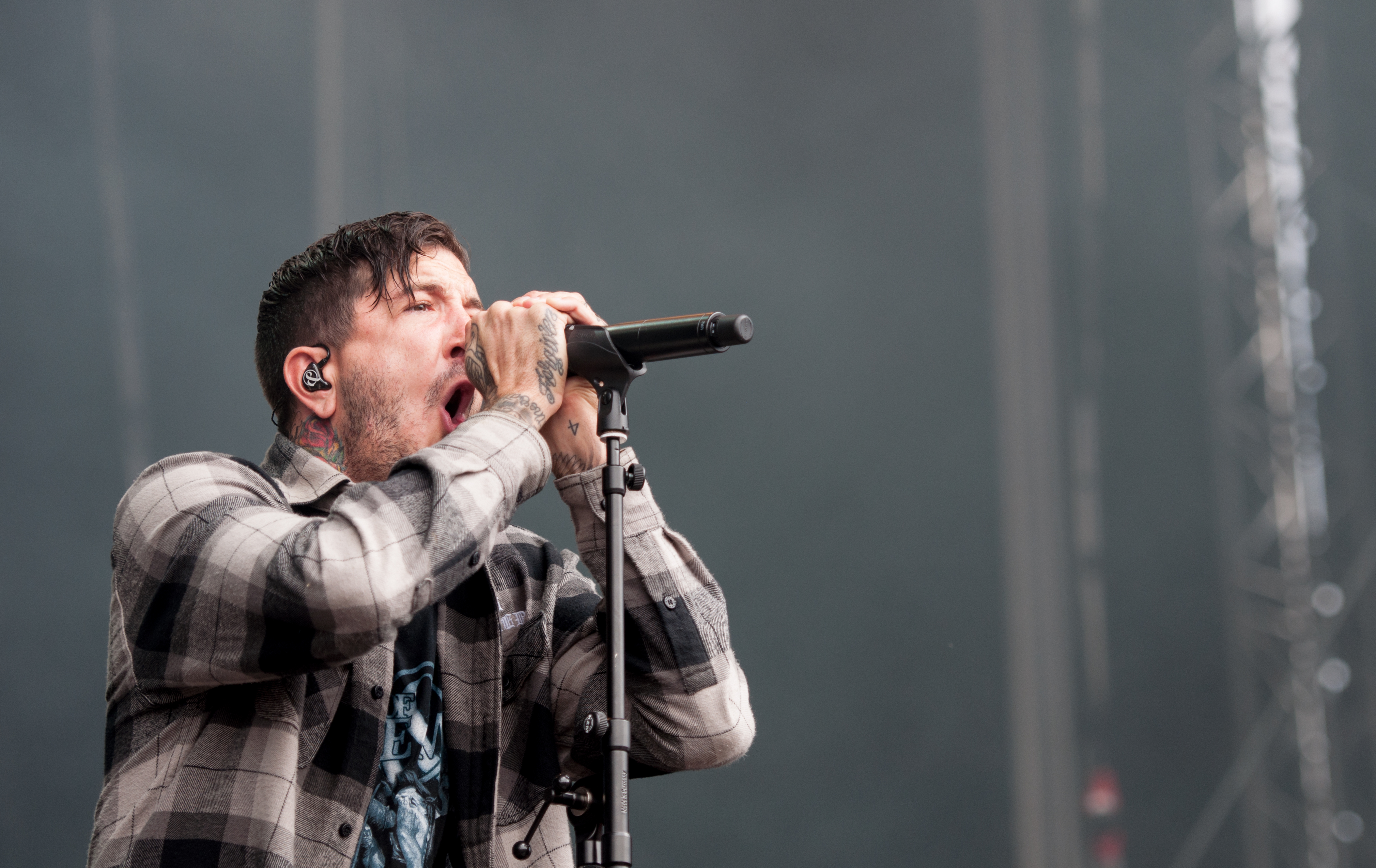 Of Mice & Men at Vainstream Rockfest 2014